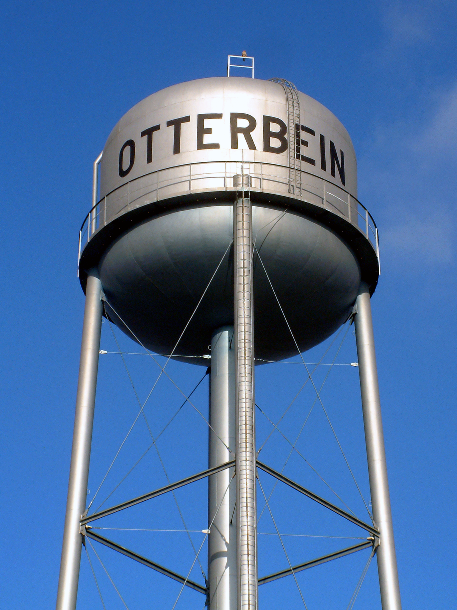 A red-tailed hawk perches on the top of the water tower in the town of Otterbein, Indiana. This view looks northeast.